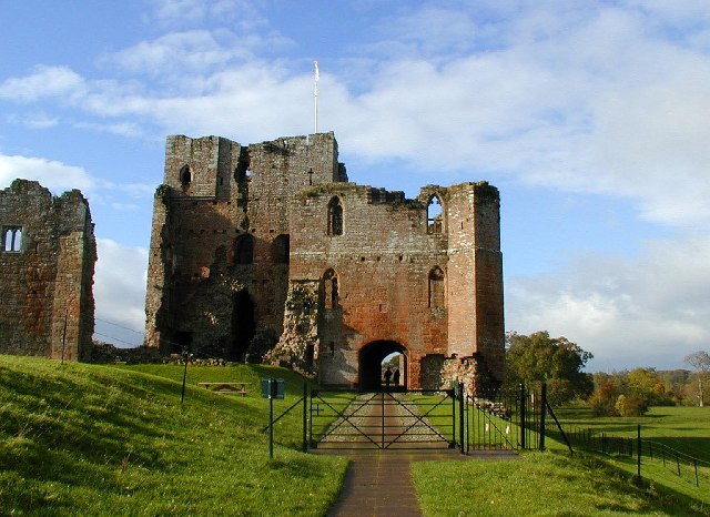 Brougham Castle near Penrith. Photo shows the double gatehouse - started in the 13th century based on a roman fort.